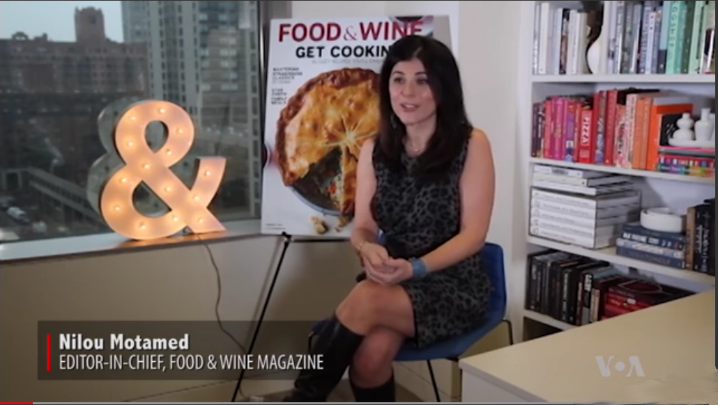 Iranian-American Nilou Motamed began her second year as editor-in-chief of Food & Wine, an American lifestyle magazine dedicated to covering new trends in food, drink, travel, design and entertaining. In an interview with VOA Persian journalist Saman Arbabi in New York, the 45-year-old Motamed explains how her Iranian roots inspired her not only to pursue success in the competitive U.S. media industry, but also to highlight Iranian culture through her magazine. (extracted from the movie clip on the website)